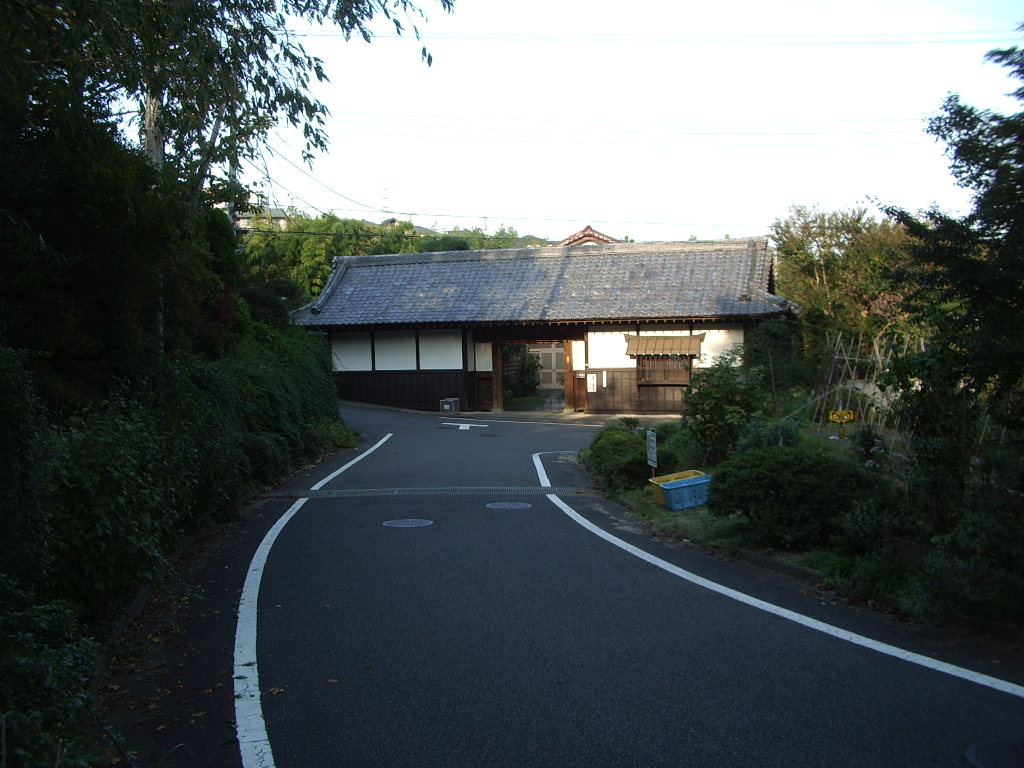 Nagayamon, Kasayato, Inagi, Tokyo